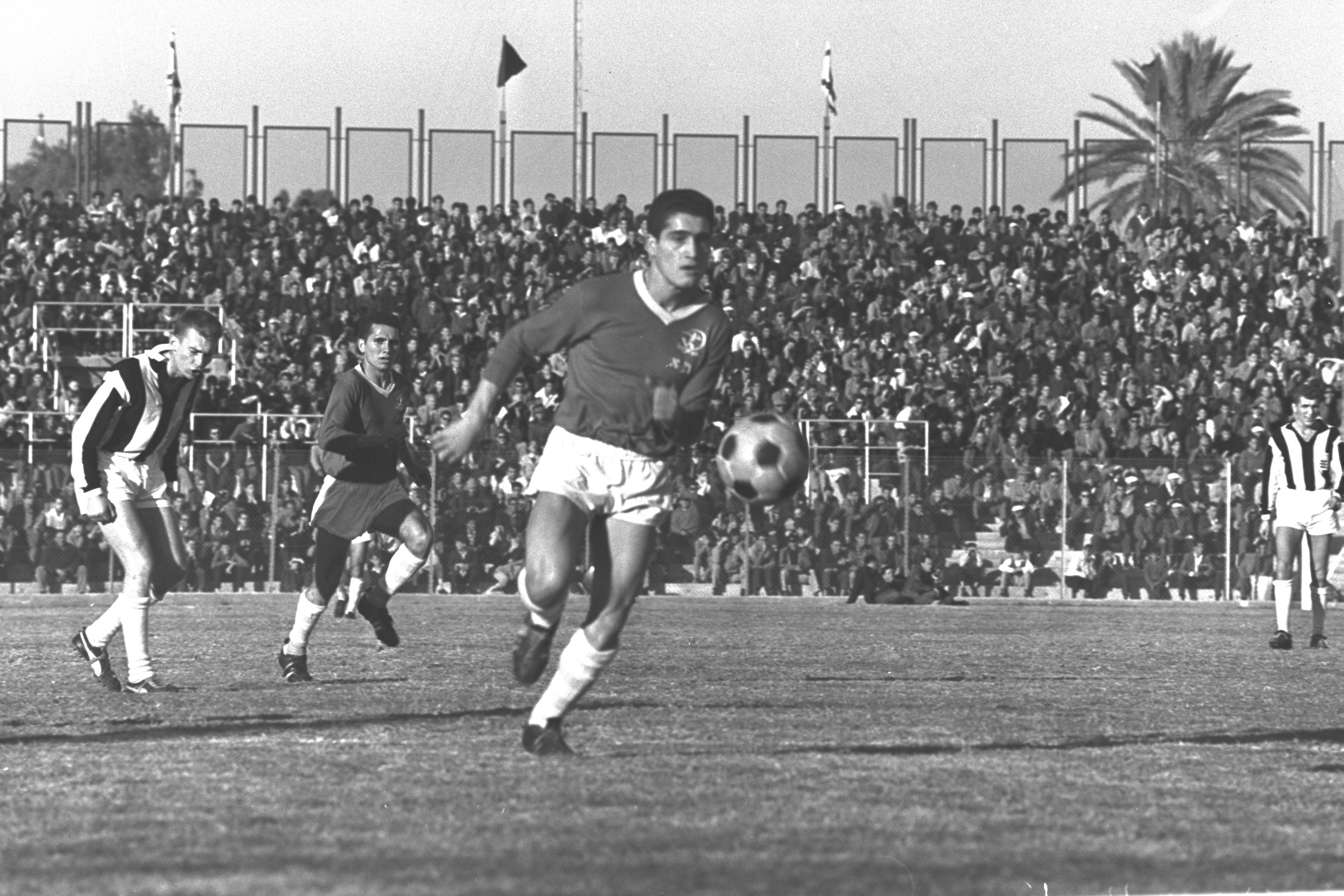 Hapoel Tel Aviv plays against a team from Holland. This was the first game held at the newly-opened Bloomfield Stadium in Jaffa.